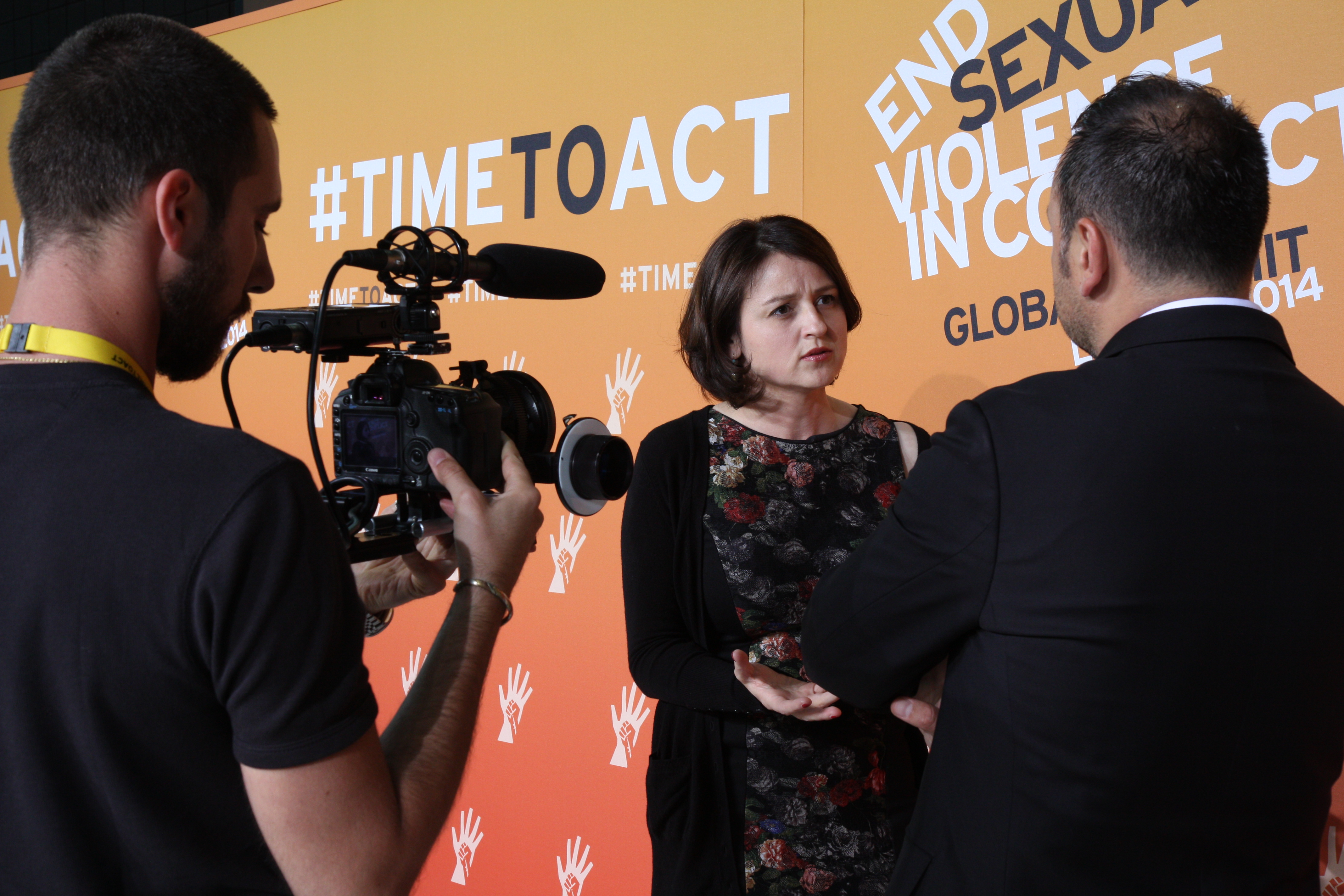 Vanessa Glodjo, member of the cast of “In the Land of Blood and Honey” at the Global Summit to End Sexual Violence in Conflict, 11 June 2014.